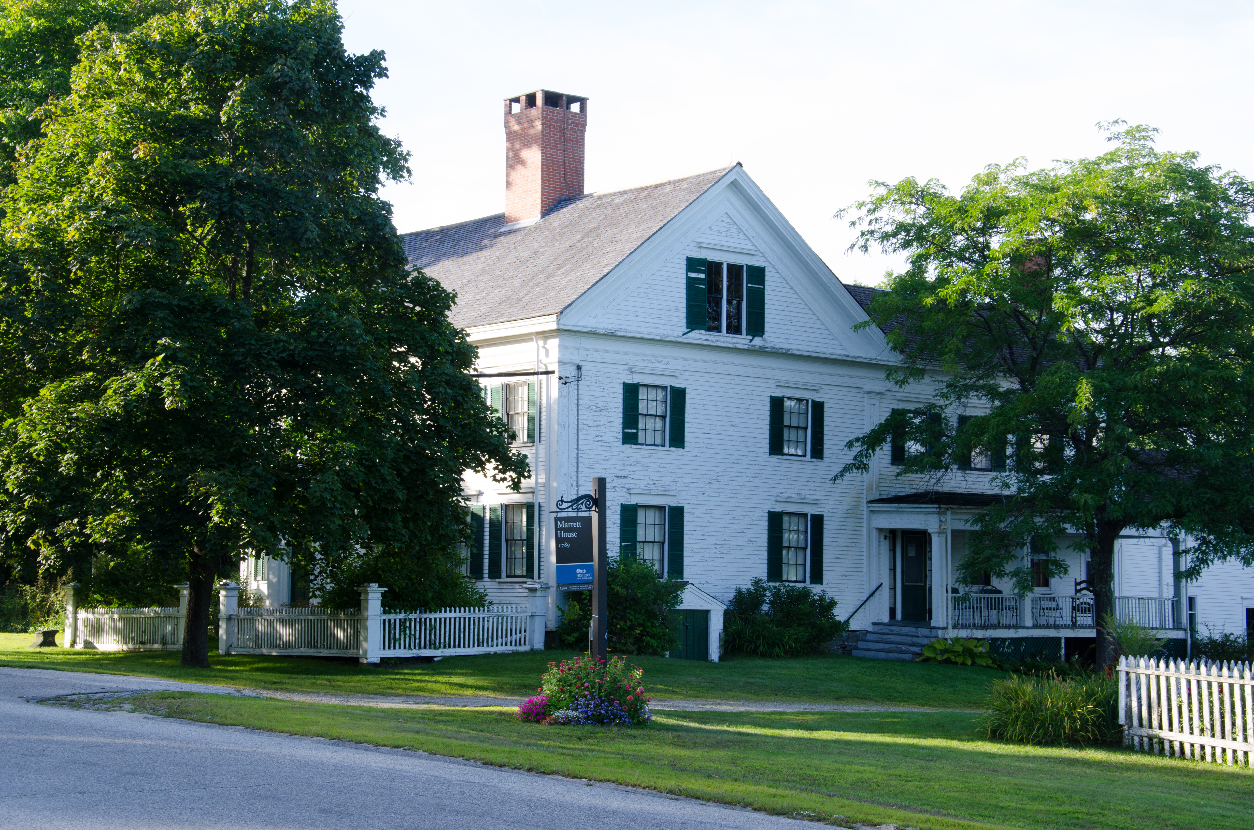 Marrett House, a historic building in Standish, Maine.